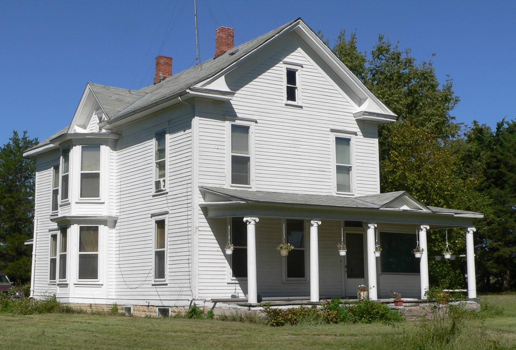 William Ducker House, located at 821 Franklin Street in Red Cloud, Nebraska; seen from the northeast. The Greek Revival house is listed in the National Register of Historic Places.